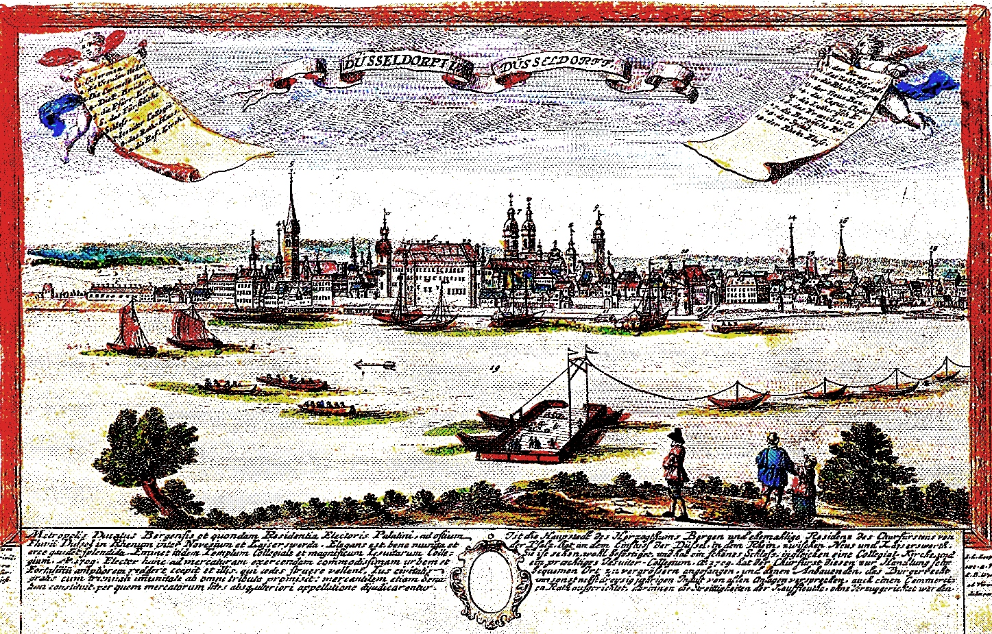 t